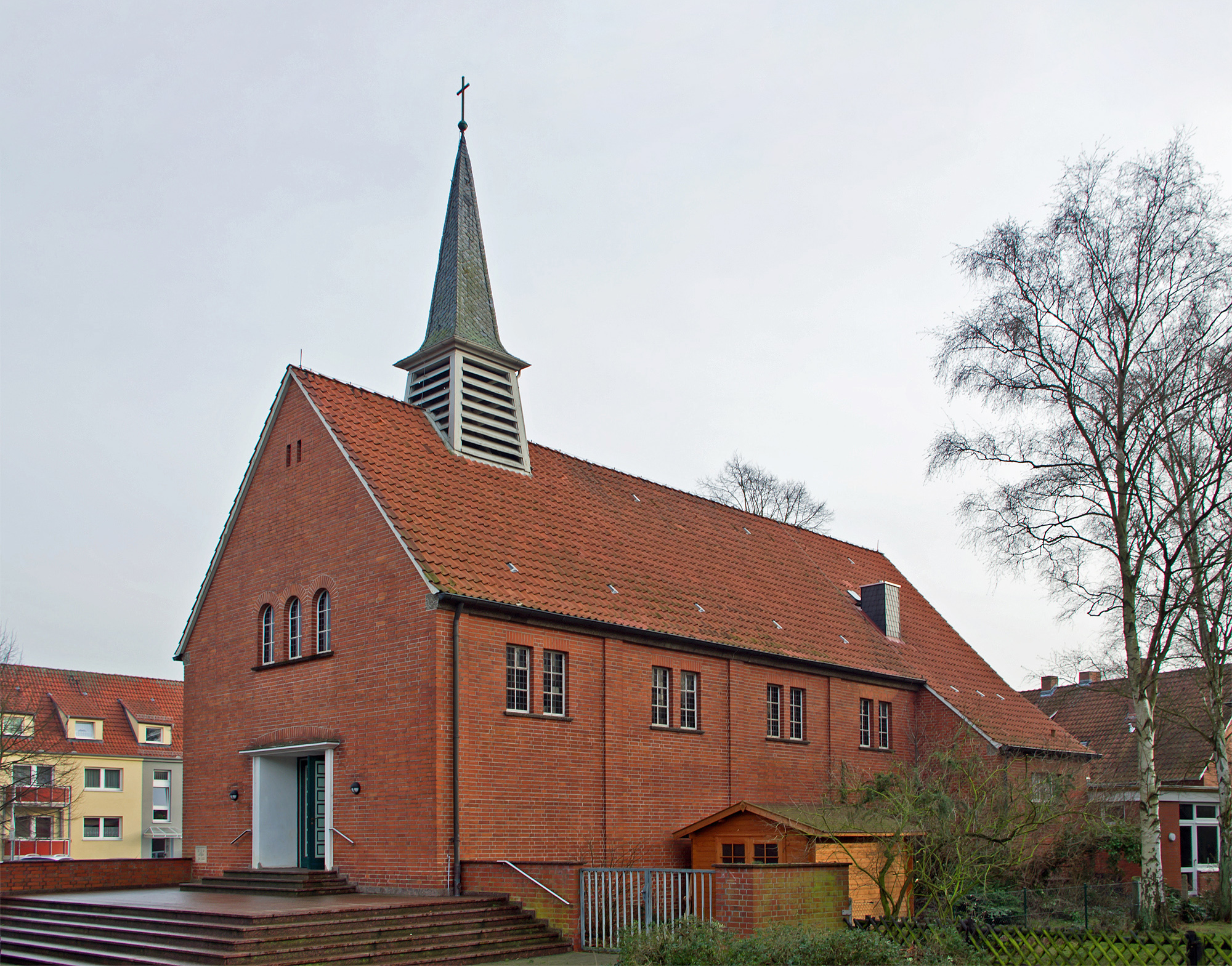 Catholic church in the small town Dannenberg (district Lüchow-Dannenberg, northern Germany).